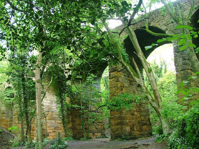 Waterfall Viaduct. Known locally as Waterfall Viaduct this carried the former Cleveland Railway and is now almost hidden in Spa Wood.